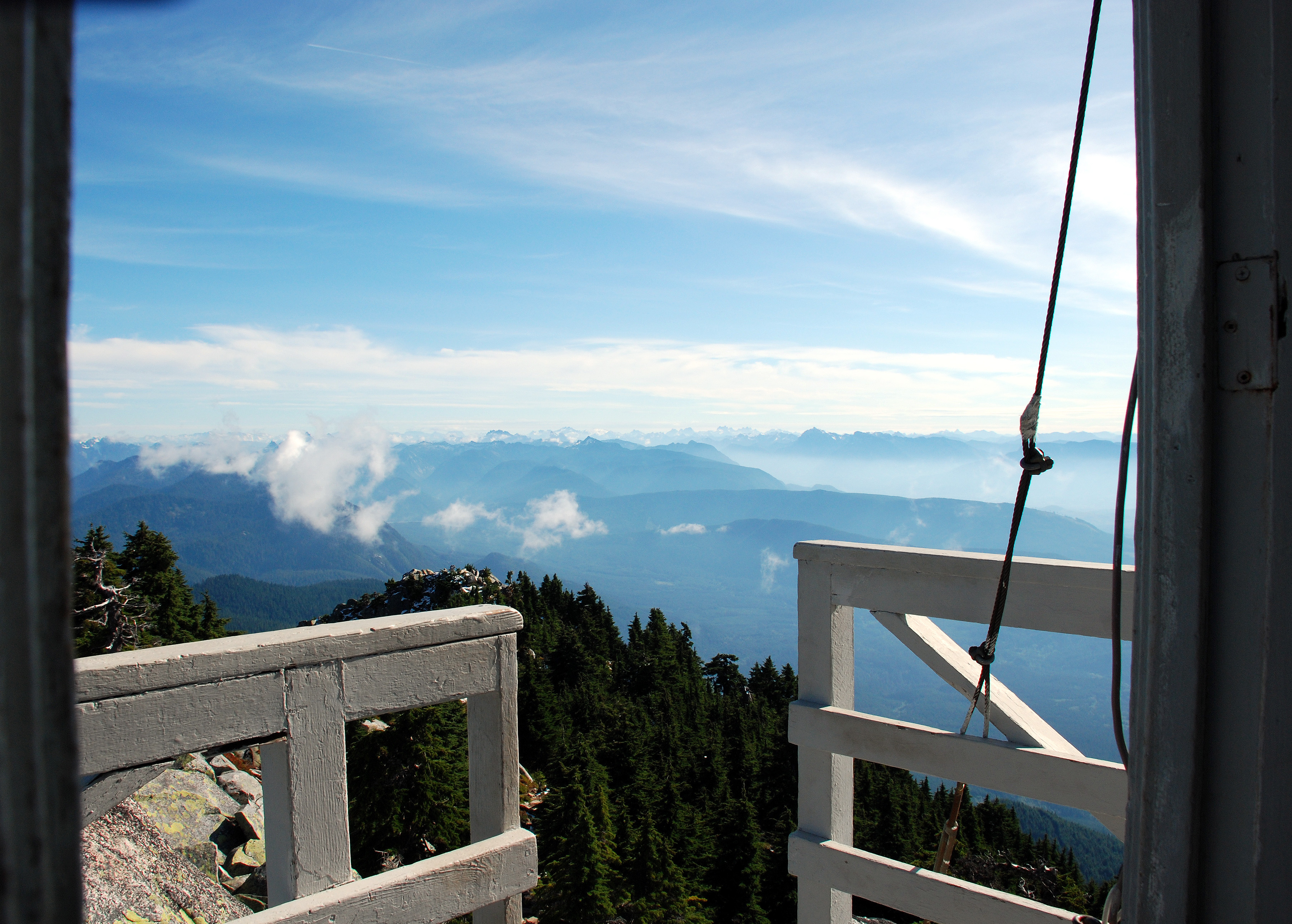 View from Mount Pilchucks Fire Lookout